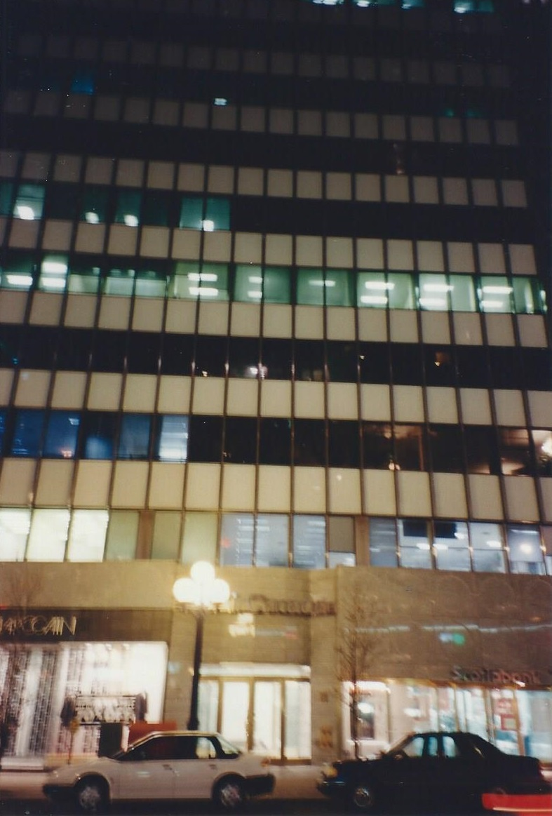 The 10th floor of this office building at 130 Bloor Street West in Toronto housed the offices of SCO Canada, Inc. This had been the HCR Corporation before being acquired by SCO in 1990. Much of the SCO Canada office would be shut down following SCO's acquisition of Novell's Unix Systems Group in late 1995.